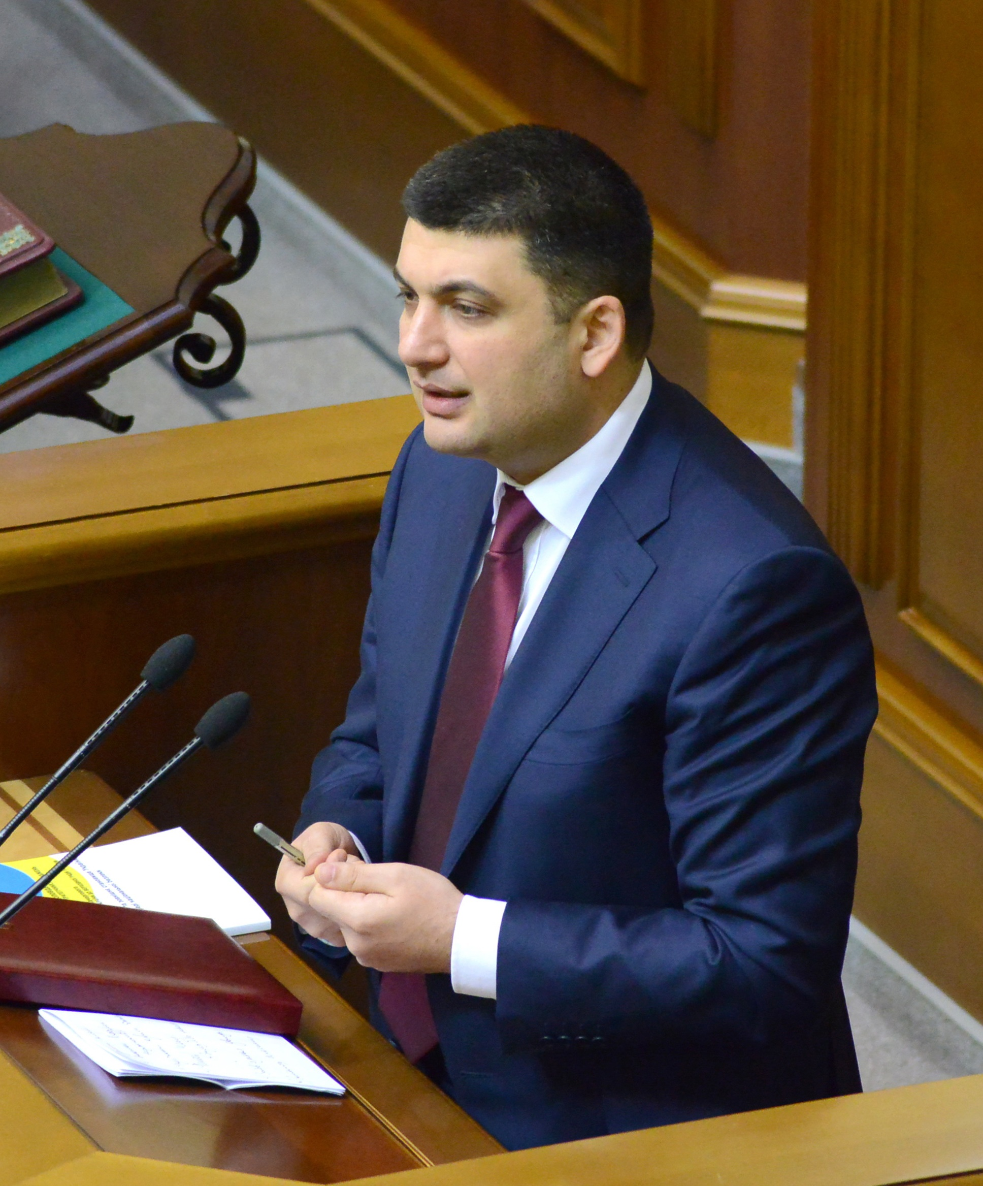 Volodymyr Groysman